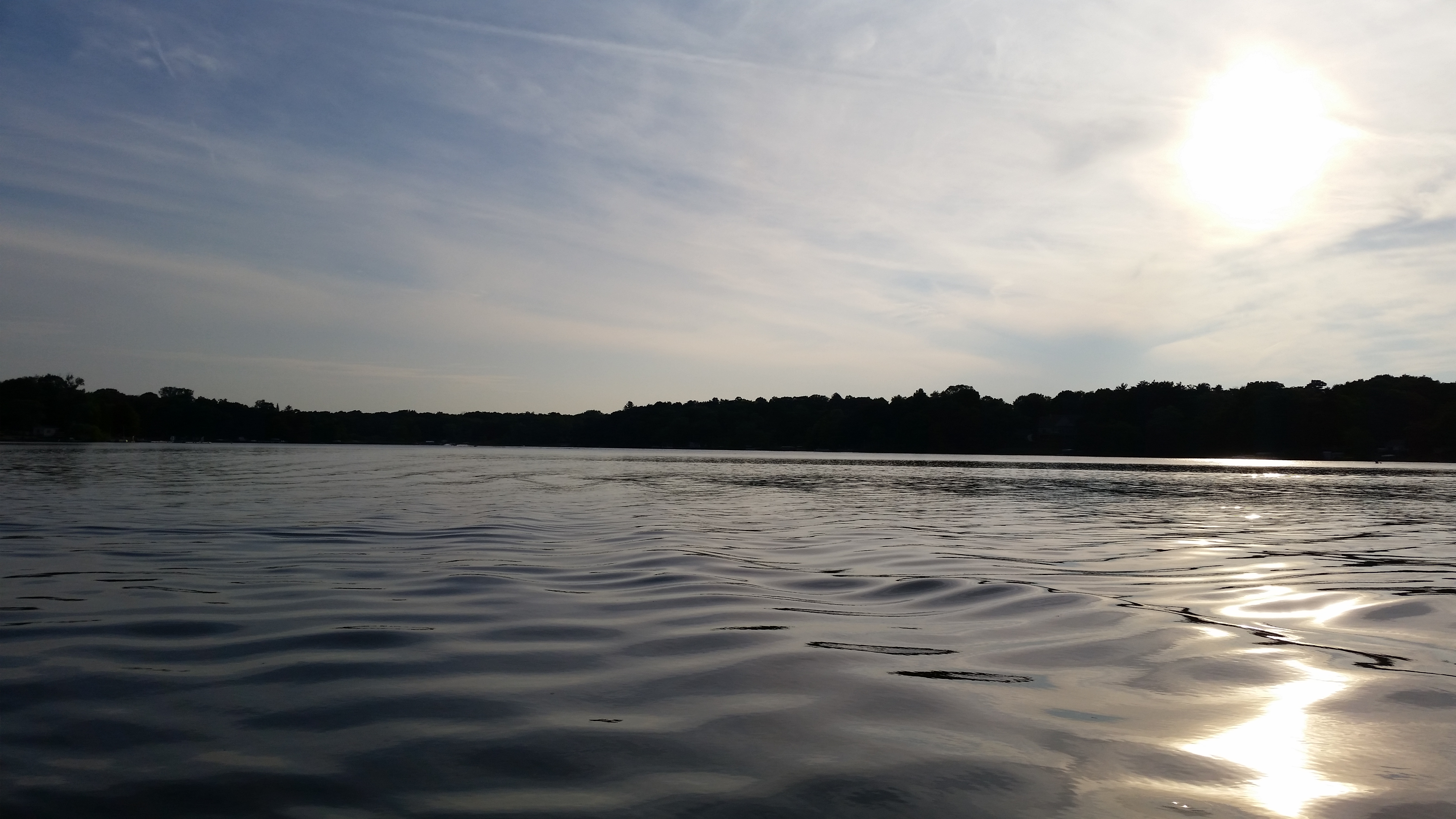 Upper Phantom Lake, Looking southwest. Photo taken in late August.